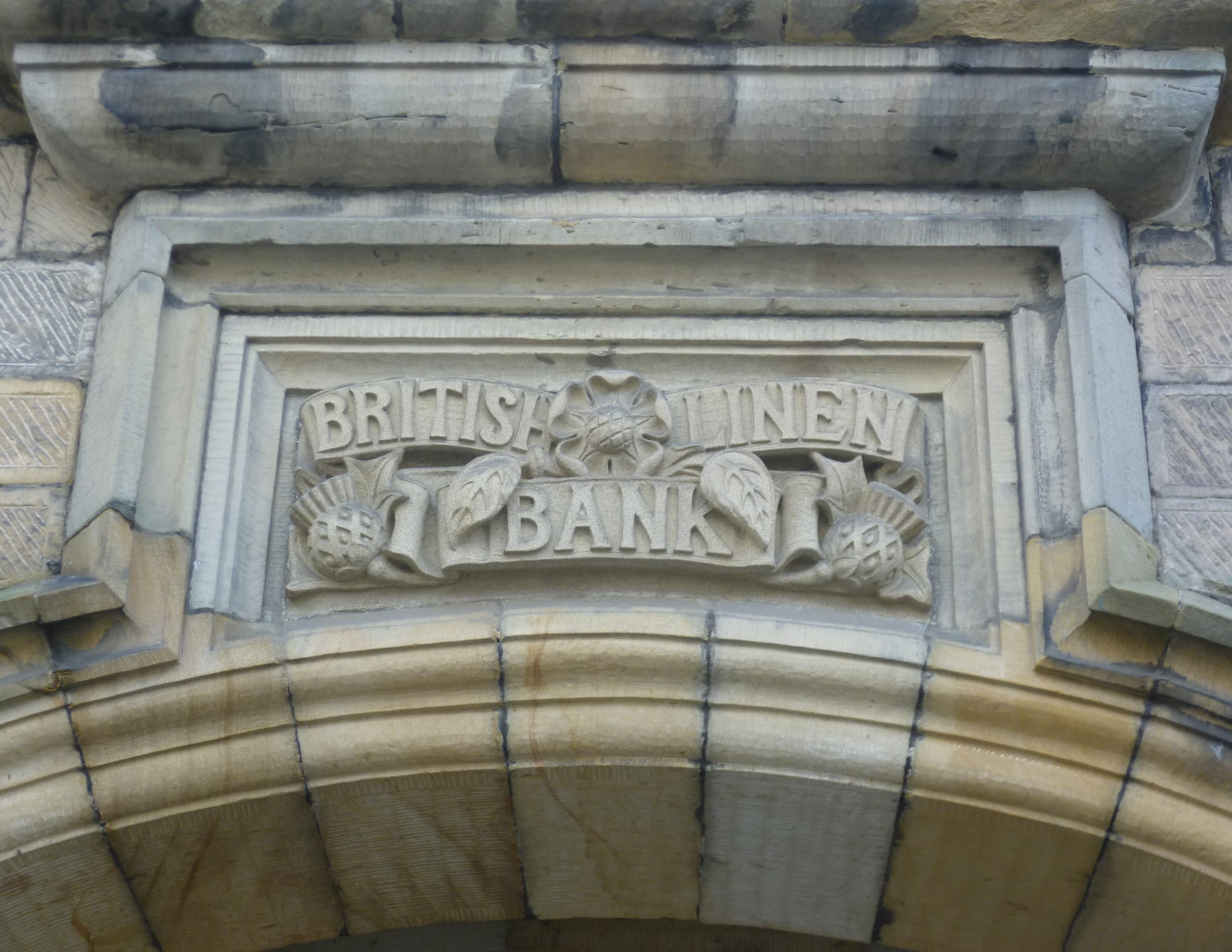 Detail above the doorway of the British Linen Bank in Falkland, Fife